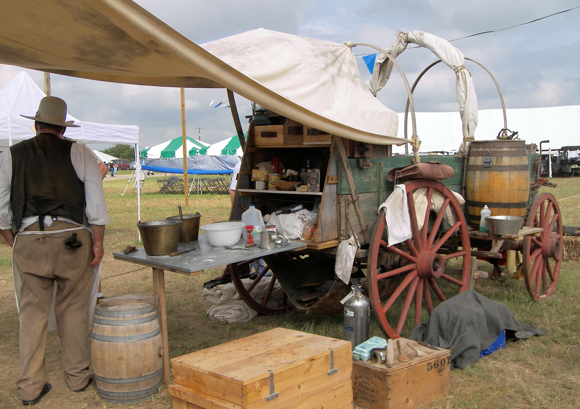 A chuckwagon at the Texas Parks and Wildlife Expo 2007 in Austin, Texas, United States.